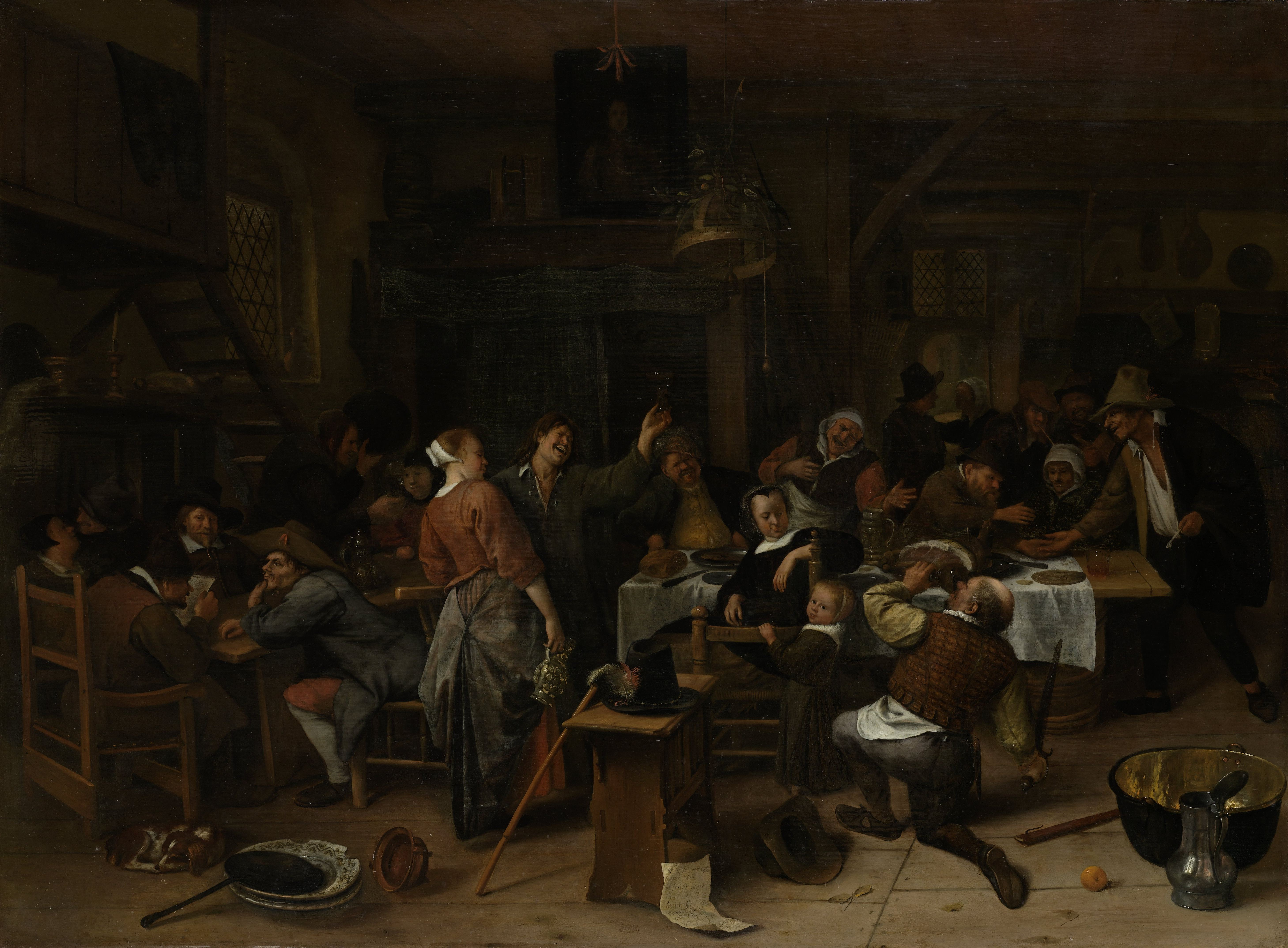 Price's day. Interior of an inn with a company celebrating the birth of William III of Orange on 14 November 1650. People are drinking, eating and laughing at table. To the left a man is reading from a piece of paper. On the wall above a bedstede hangs a portrait of the prince. Above the table hangs a copper chandelier with a orange twig and a bell.